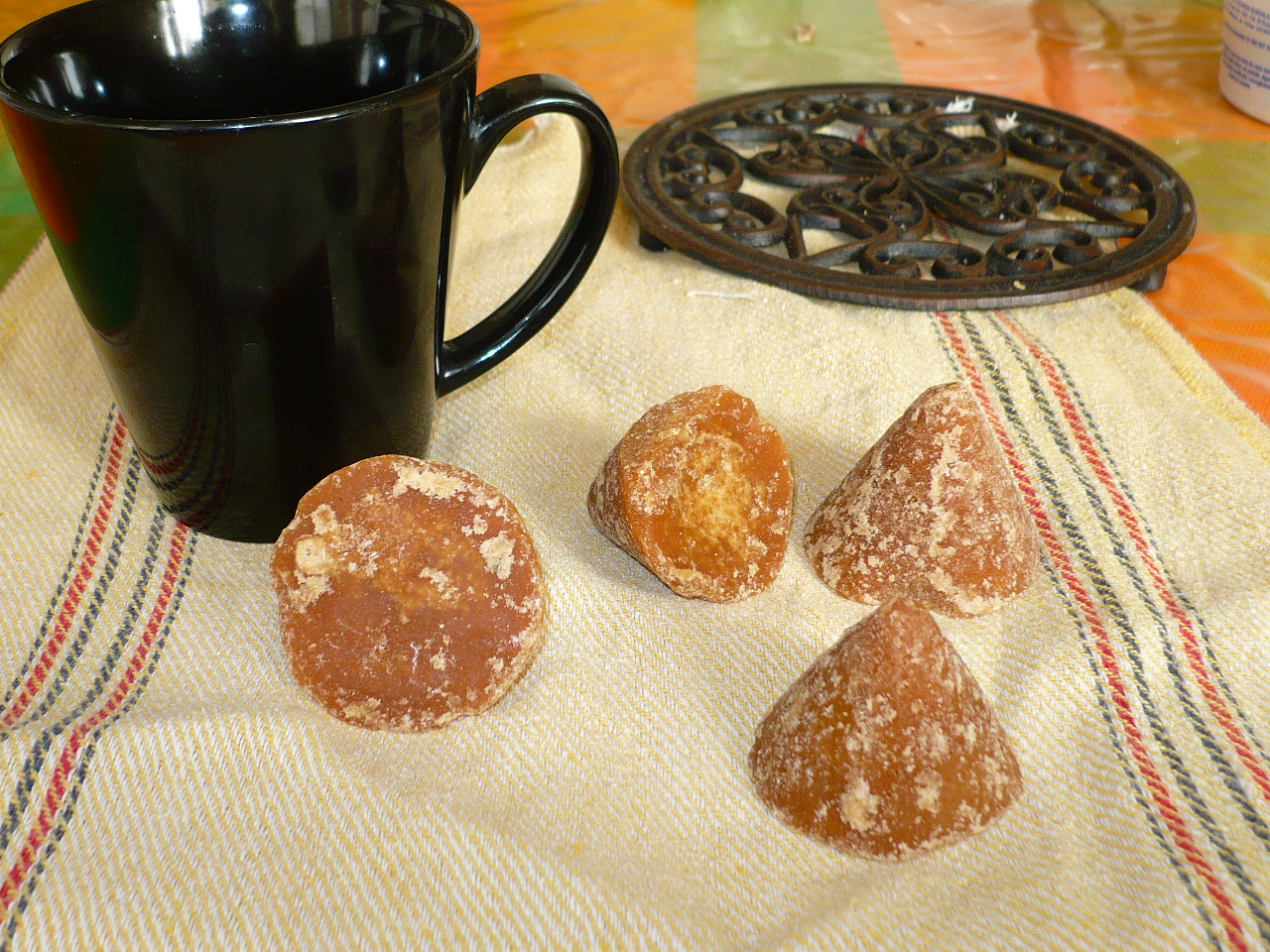 Small cones of piloncillo